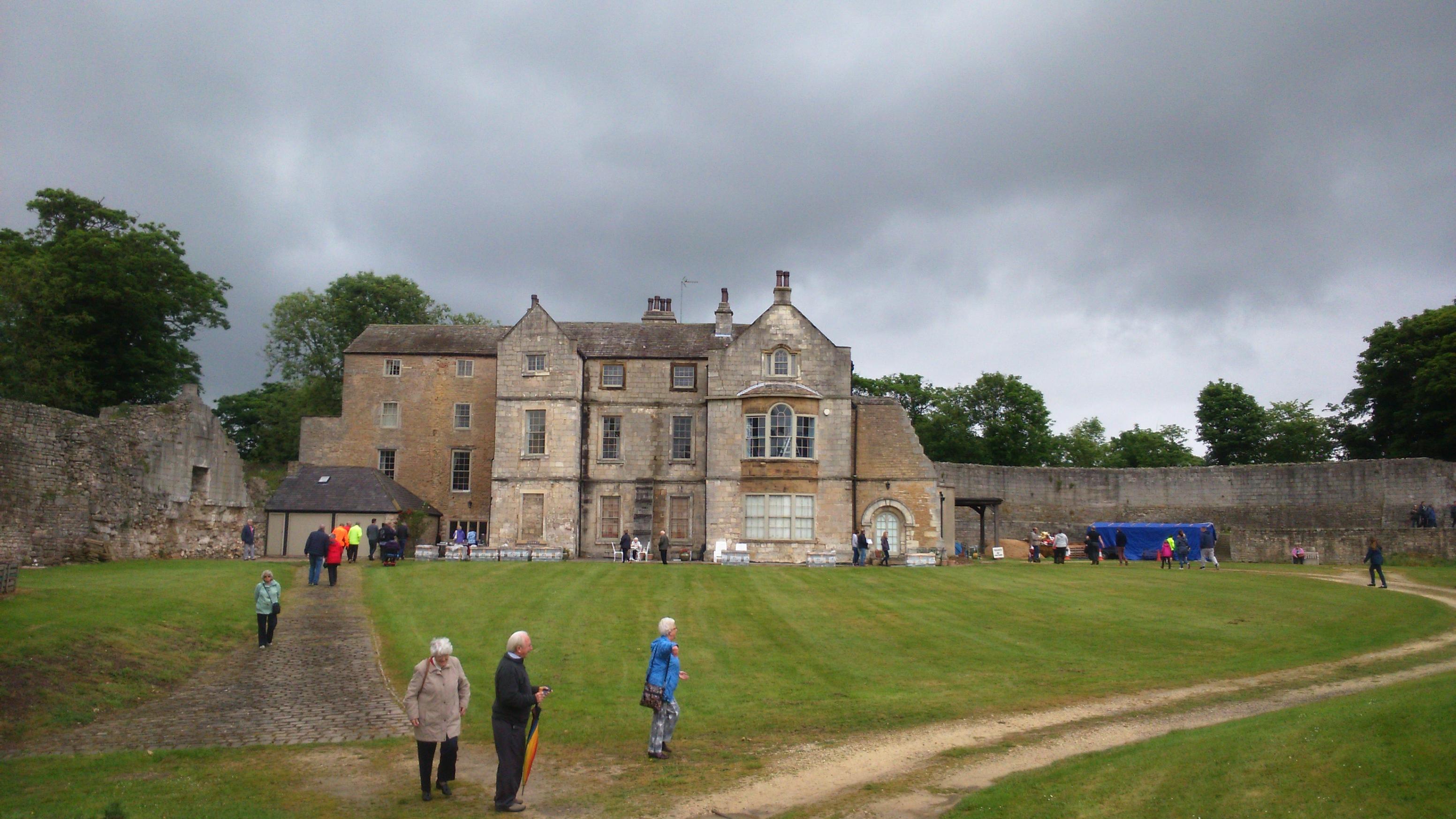 Grade II* listed house in the grounds of Tickhill Castle, which may incorporate part of the Great Hall